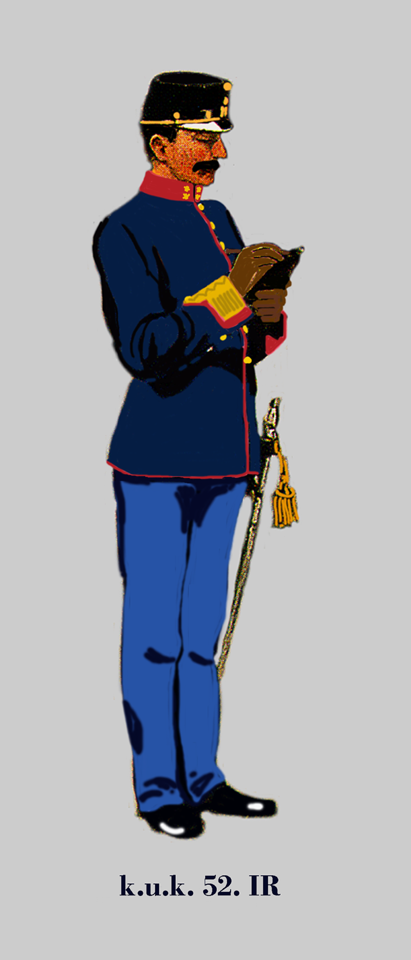 1st Lieutenant of the Austria-Hungarian (k.u.k.). 52nd hungarian Infantry Regiment in Service dress 1914